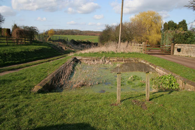 Village Pond, Glaston What looks to be a formal pool is actually a pond constructed about 1740. The wording on the sign (see 364733) says, "An ancient pond circa 1740 for soaking cart wheels to prevent ash wood shrinking from the iron tyres and also for horses hooves to prevent hardening" I hope the horses didn't get foot rot!